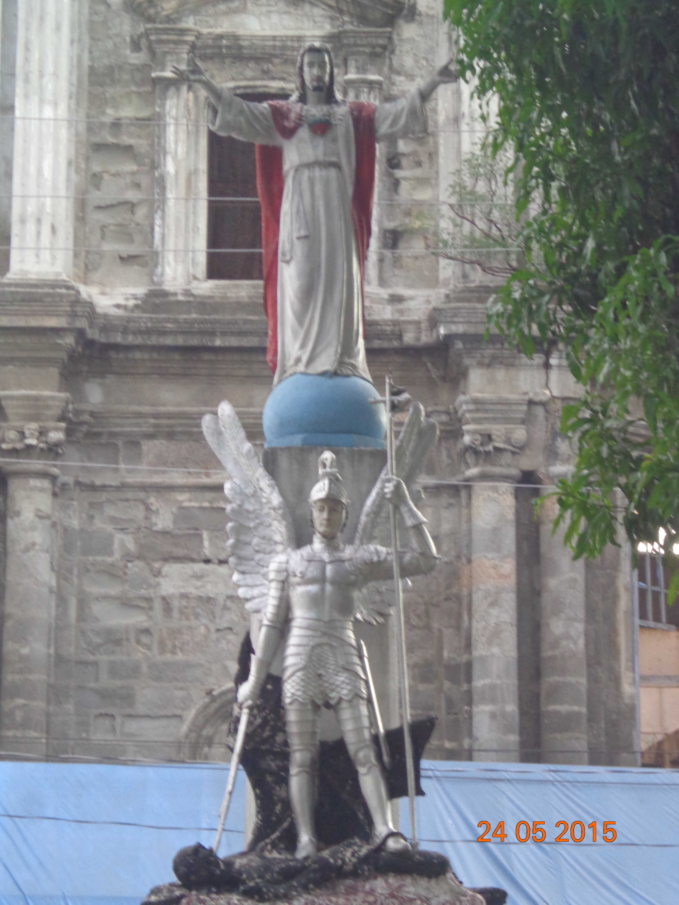 The original statue of St. Michael The Archangel is said to be miraculous.